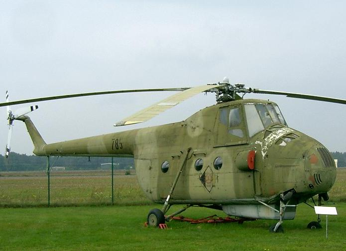 Mil Mi-4A of the National People's Army. Location: Airfield museum Cottbus, Germany.